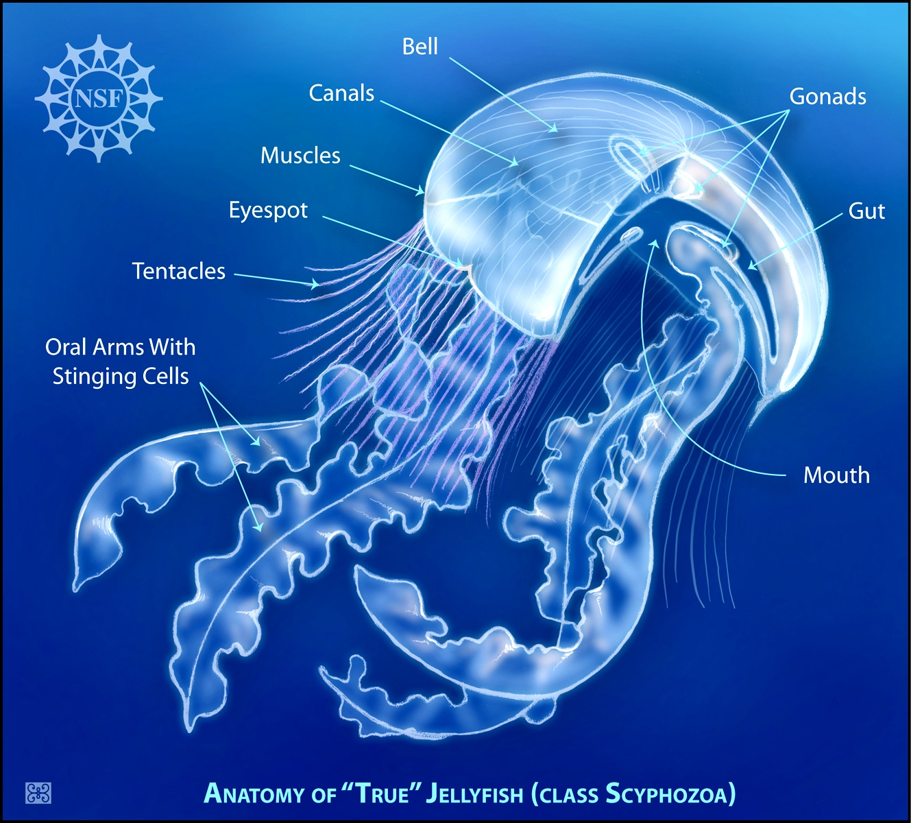 Anatomy picture of a true jellyfish